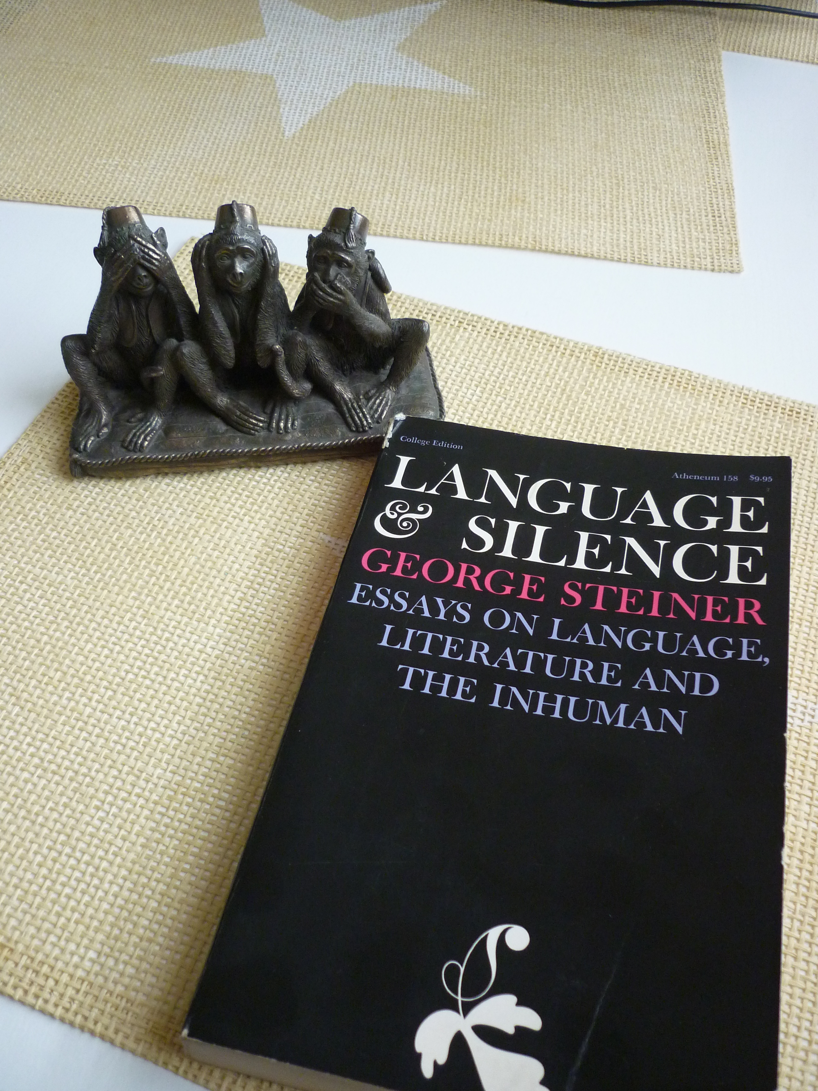 Still life with the Atheneum 1986 edition of Language and Silence by George Steiner.